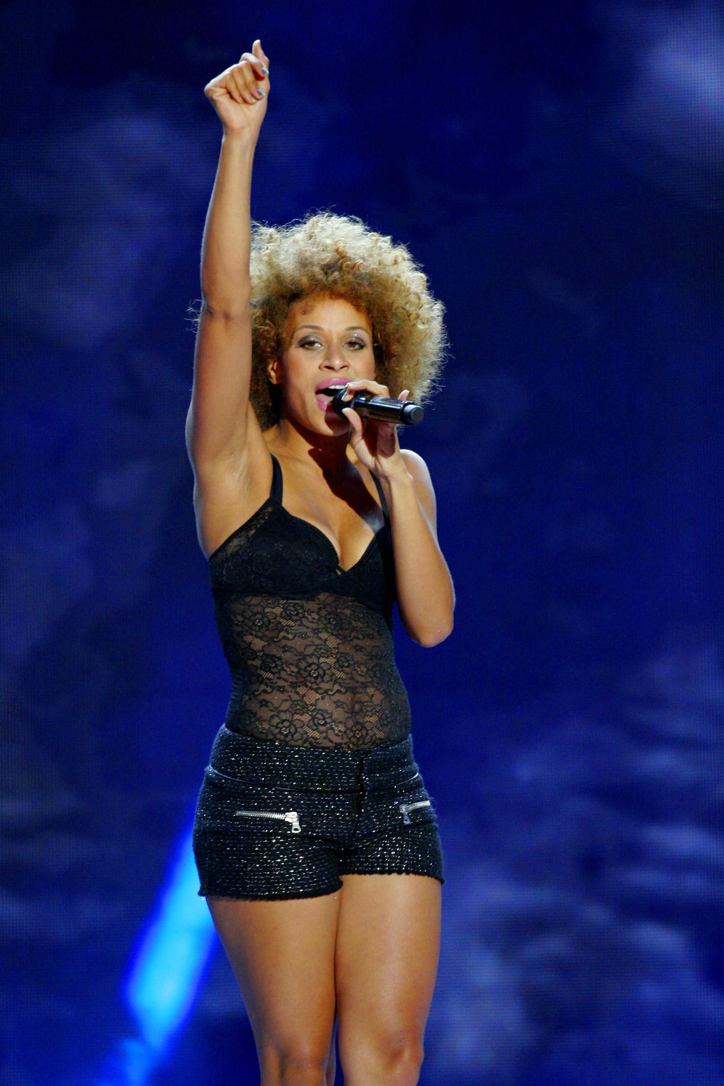 Oceana performing at the "Lato Zet i Dwójki" in Bydgoszcz.